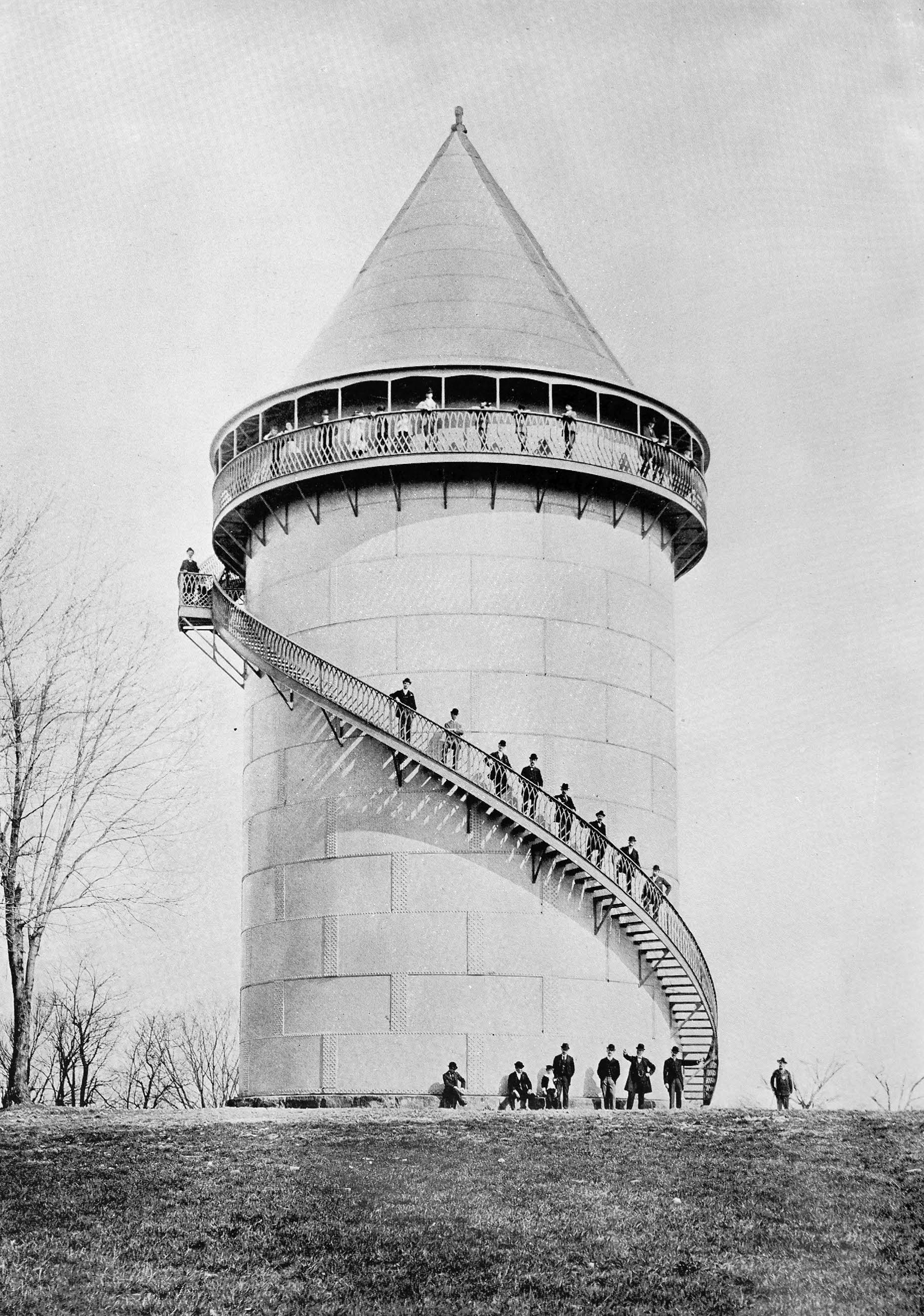 Norwood residents climb the observation deck on the Norwood Ohio Water Tower near Indian Mound in Water Tower Park the year it opened in 1894.